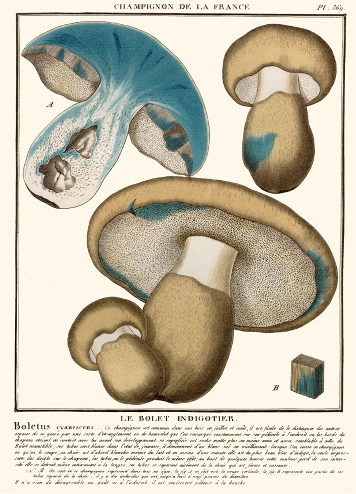 Illustration of Gyroporus cyanescens, Original in: Bulliard, J.B.F. & Ventenat, E.P. 1809, Histoire des champignons de la France, 2, compl., pl. 369-372, 509-540